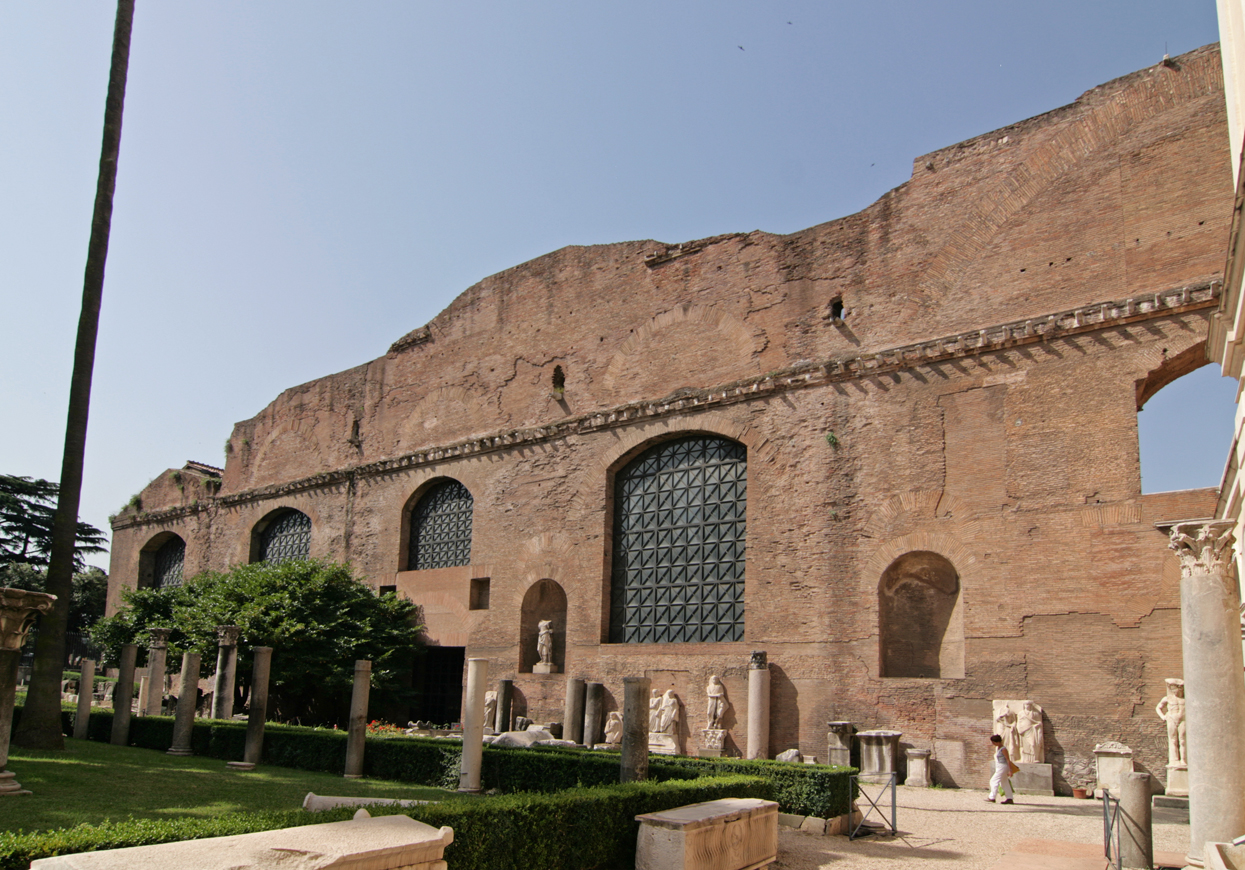 Baths of Diocletian, Rome.